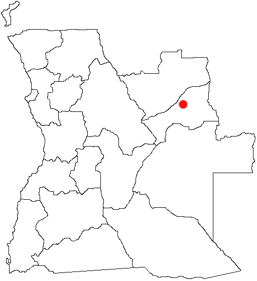 Saurimo, Angola Location Map; created with the GIMP. Made by User:Acntx.